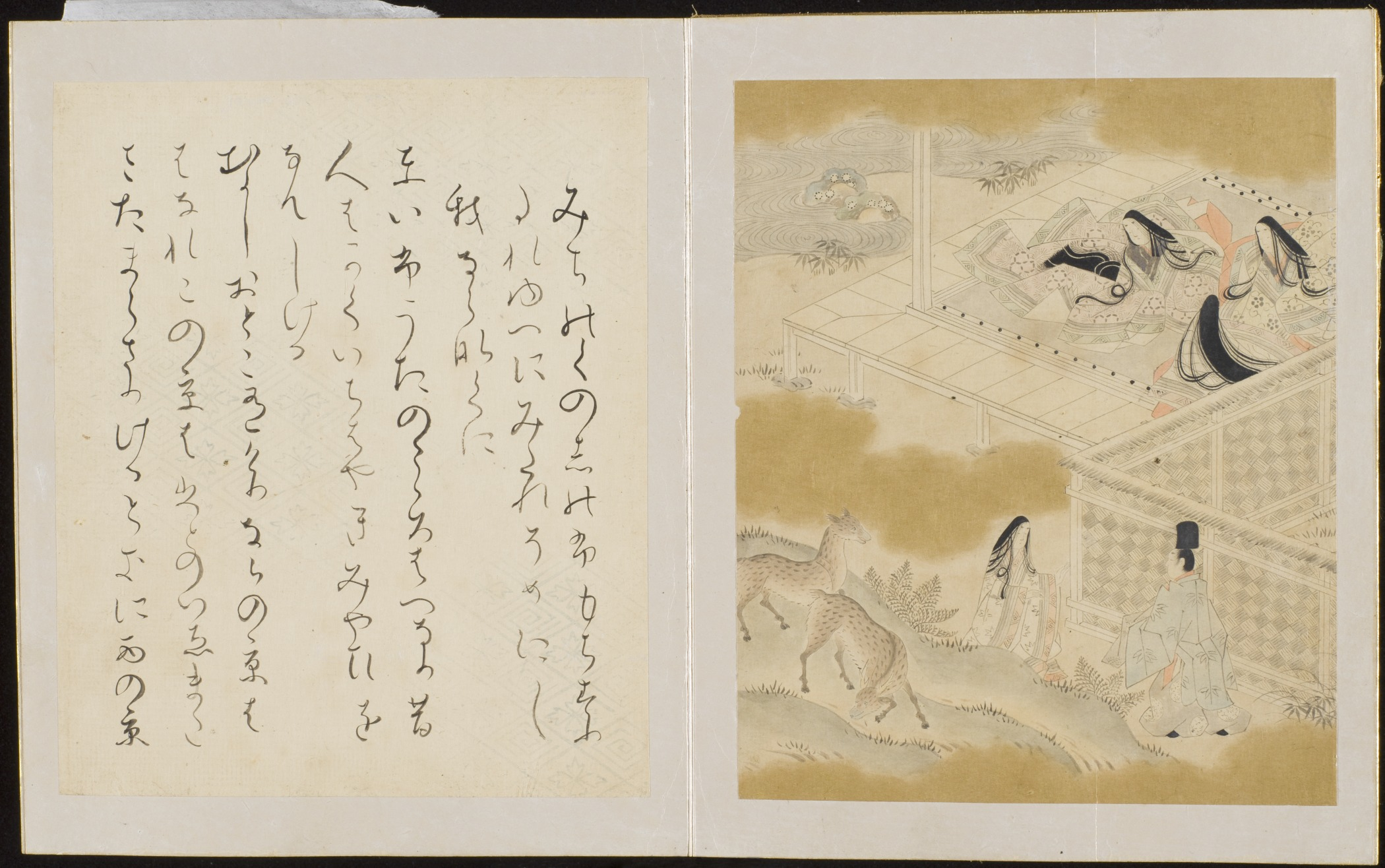 Japan, Genroku era (1688-1704) Books Album, ink, color and gold on paper, brocade cover folio with painted illustrations Gift of Miss Bella Mabury (M.39.2.380) Japanese Art